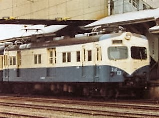 JNR 80 series EMU car KuMoNi 83103